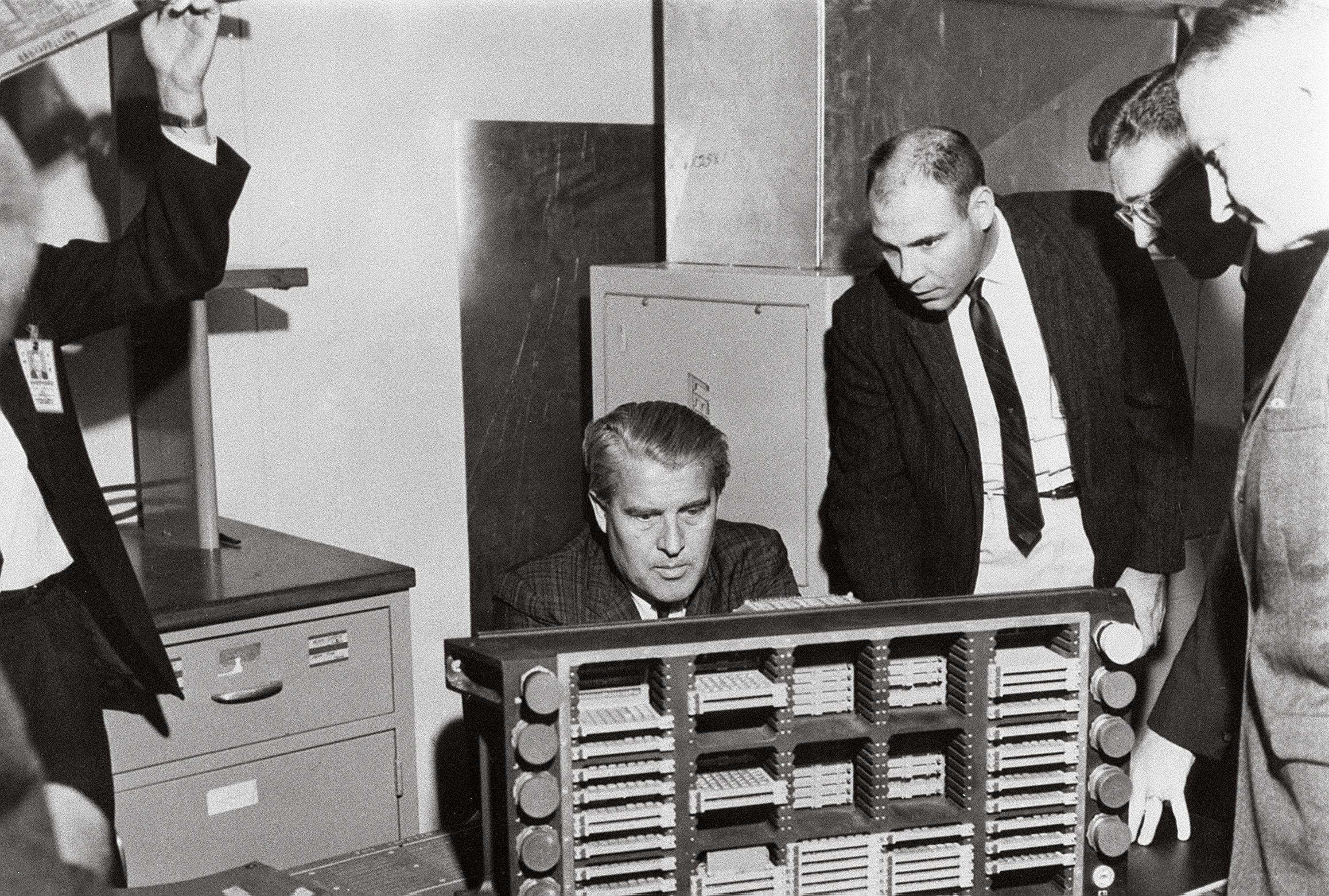 Title: Dr. von Braun Visiting Astrionics Laboratory. Abstract: This photograph is dated March 10, 1966, and shows Dr. von Braun (seated) examining a Saturn computer in the Astrionics Laboratory at the Marshall Space Flight Center. Standing left to right are J.B. White, Brooks Moore, and Herman K. Weidner. Publication date: 1966-03-10. Accession ID: MSFC-6637178. Updated/Added to NTRS: 2007-10-12 This image shows a Launch Vehicle Digital Computer (LVDC) with its cover removed to reveal page assemblies in 5 columns. Quite a few positions are not populated. Von Braun is looking at the back side of the LVDC. On the front, on the left and the right are capped electrical and cooling water inputs and outputs.